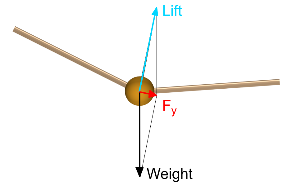 On the explanation of the dihedral angle effect, diagram 1. Drawn by Sergey Khantsis.